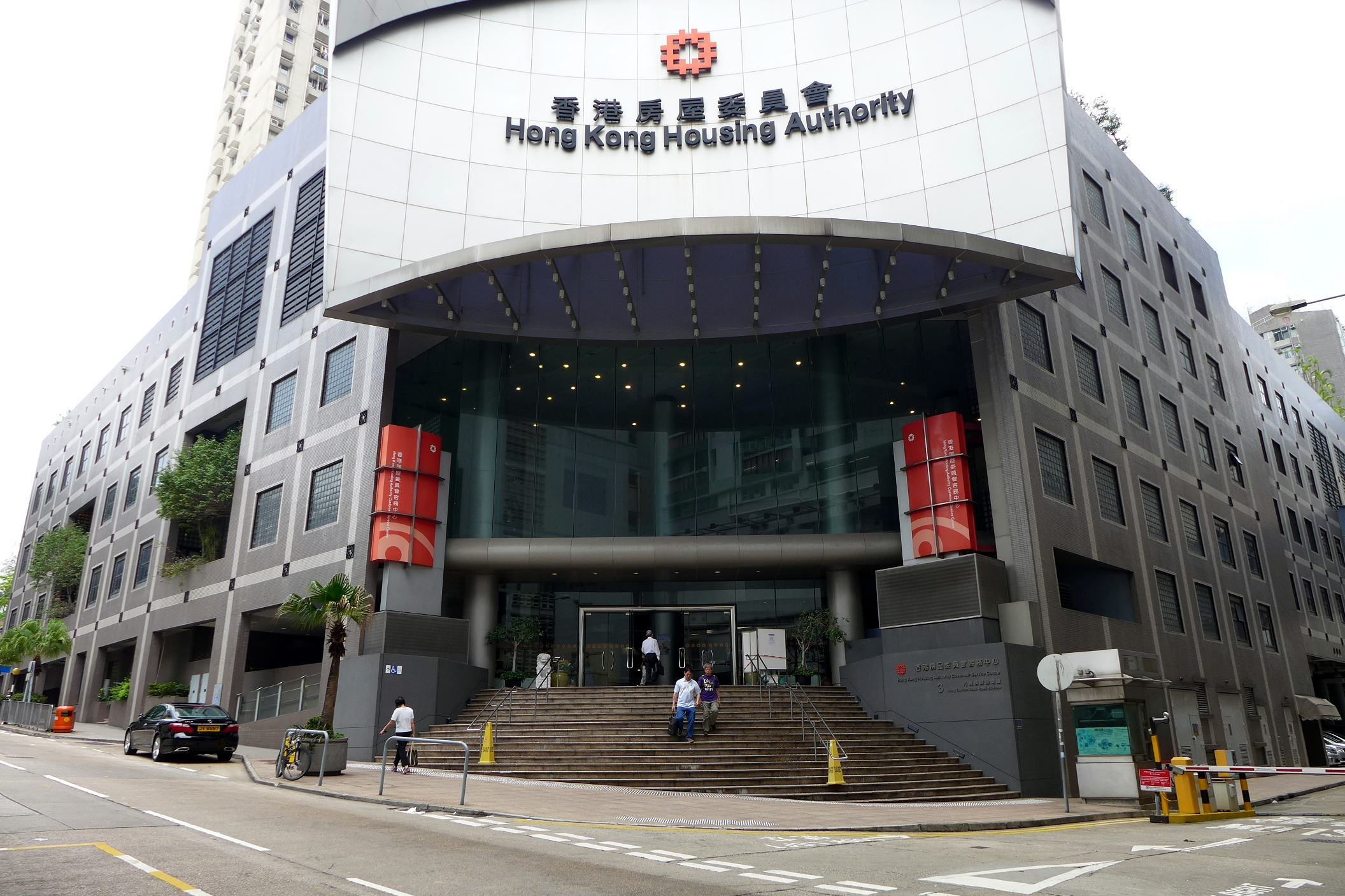 Hong Kong Housing Authority Customer Service Centre 香港房屋委員會客戶服務中心